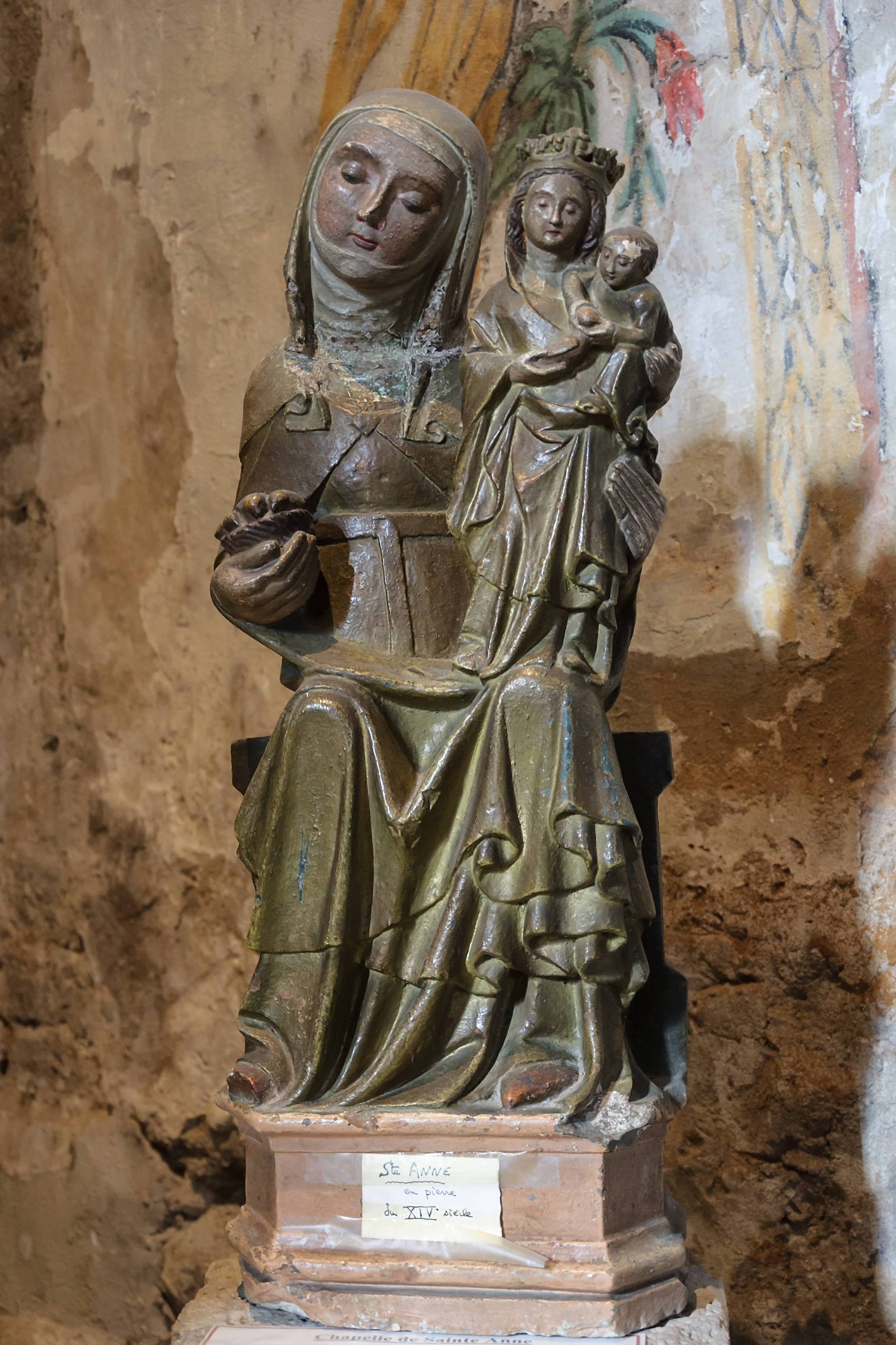 Saint Ann, the Virgin and Child - sculpted group (15th century) - Notre-Dame-du-Gourg church in Sainte-Enimie, Lozère, France